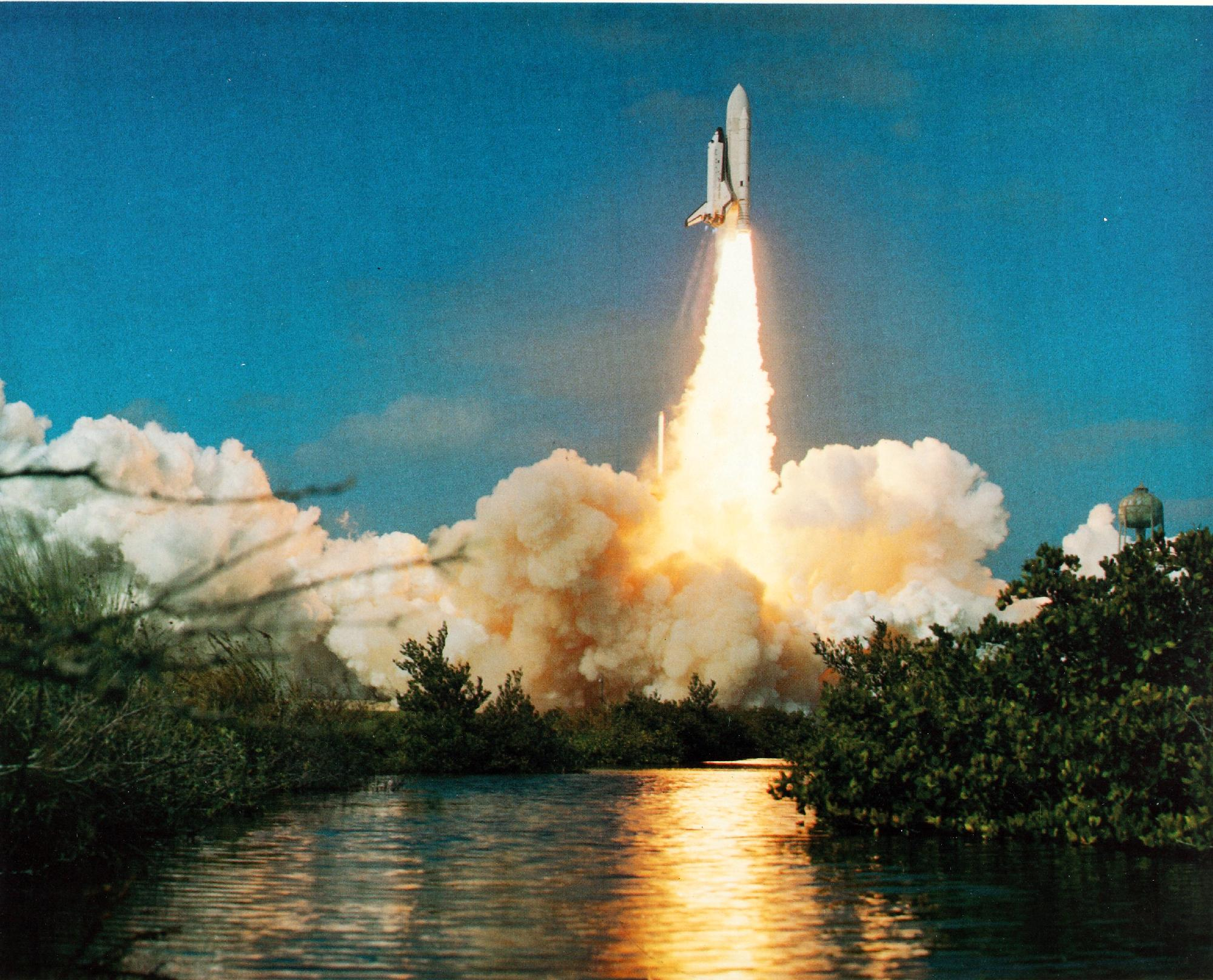 shows the launch of the space shuttle Columbia